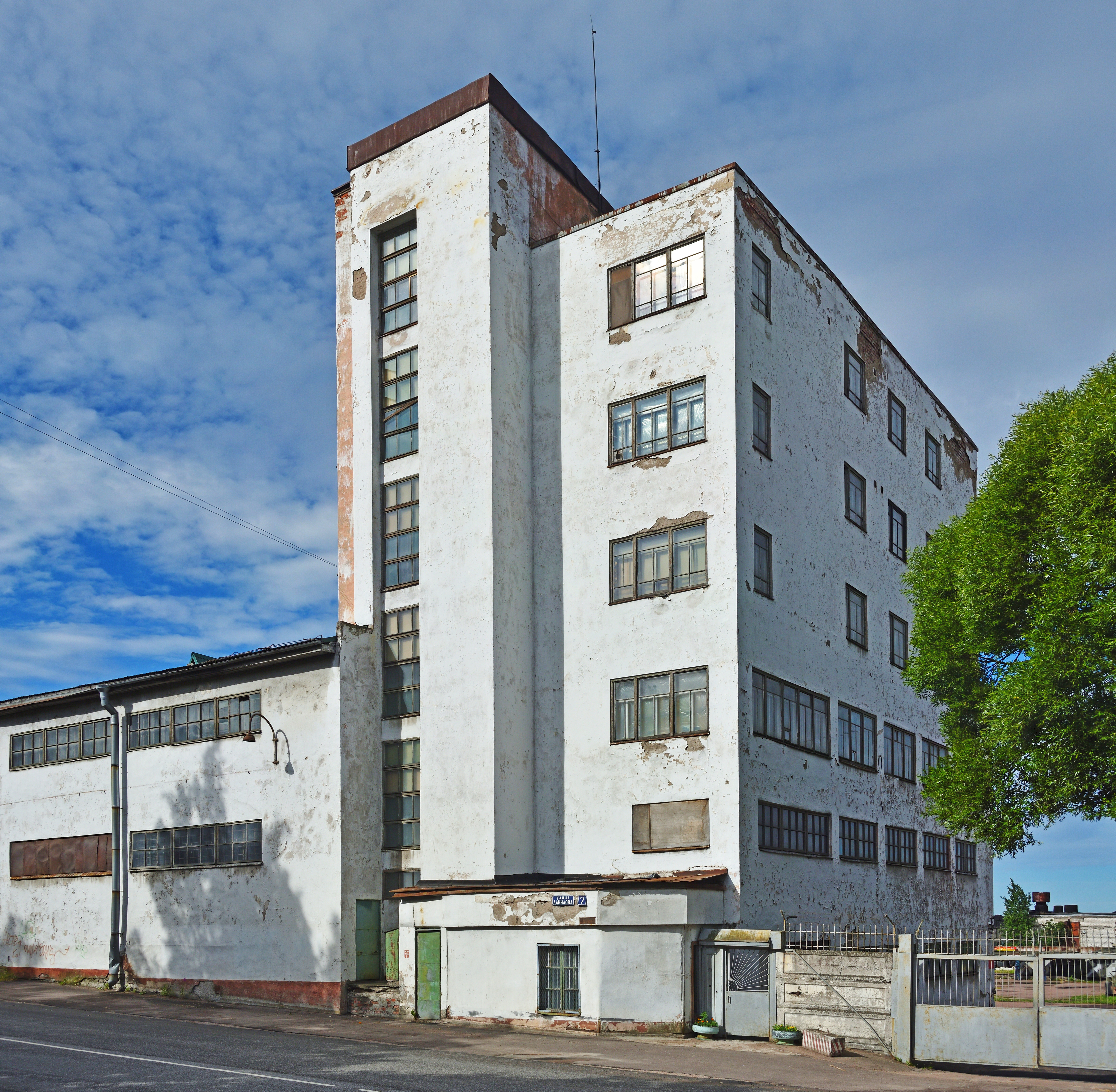 Hankkija building, Danilov street 7, Vyborg, Leningrad oblast, Russia